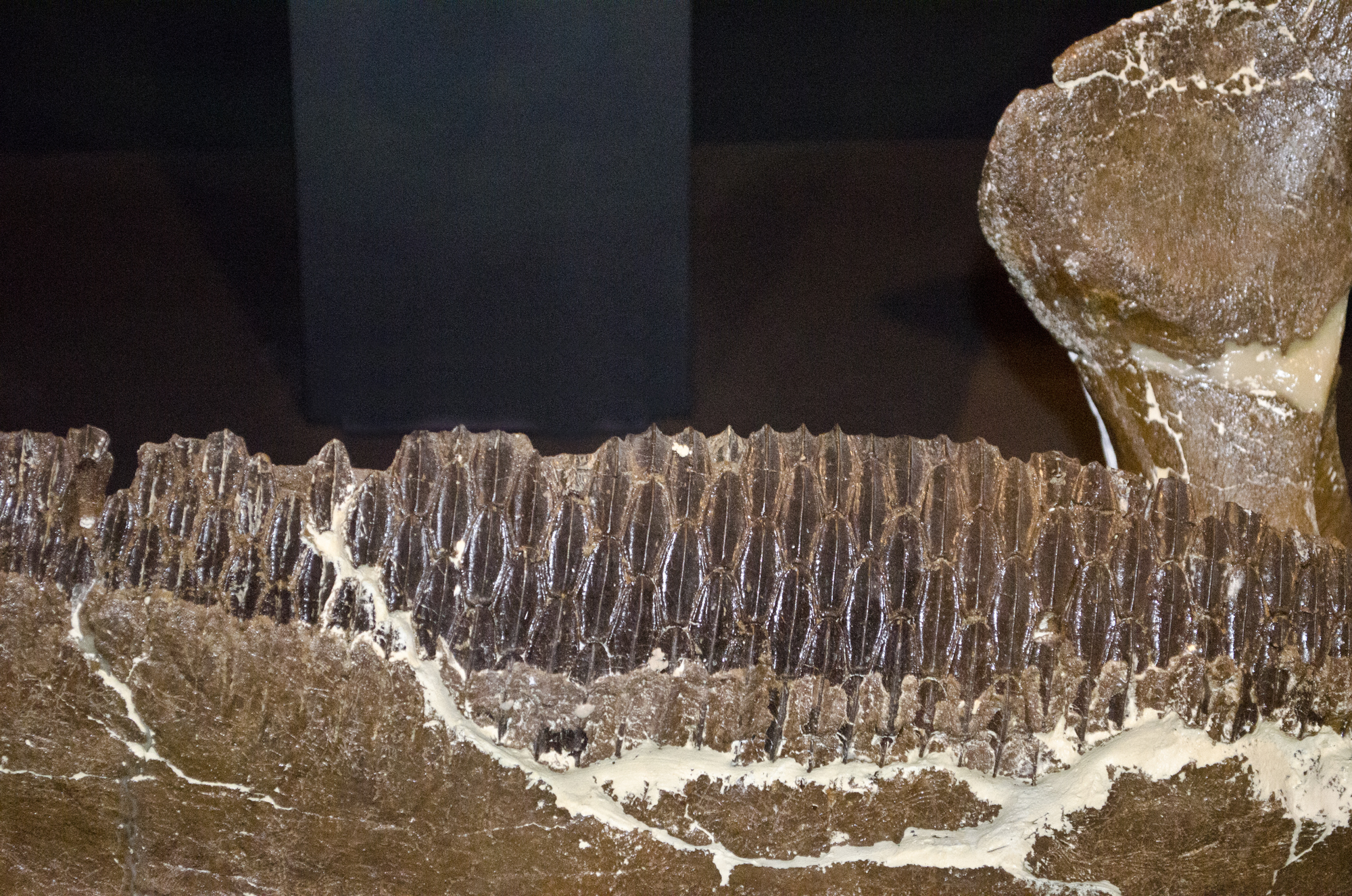 The mandible (lower jaw) of an Edmontosaurus at the Museum of the Rockies in Bozeman, Montana, seen from the inner side (i.e. from the tongue side). It is not clear where this specimen was collected. Edmontosaurs belong to the so-called duck-billed dinosaurs (hadrosaurs), and were exceptionally numerous in Latest Cretaceous times throughout upper North America. As herbivores, they ripped leaves and plants using their bills, and then, unlike reptiles usually do, chewed the leaves and stems extensively. This caused wear to their teeth, which ground down quickly. The teeth were not only lying next to each other but were also stacked one above the other within the jawbone to form vertical tooth rows. So there were quite a lot of teeth in one jaw and all the densely packed teeth together are referred to as ‘tooth battery’. In the jaw that is shown above, many unworn, keeled, diamond-shaped surfaces of the stacked teeth are visible. Furthermore, the teeth erupted in a way that there was more than one tooth functional in each vertical row: The teeth rotated during their lifetime around the long axis of the jaw so that a new tooth first reached the mouth cavity on the inner side of the jaw, yet before the older tooth or teeth, sitting closer to the cheek, were entirely worn down. The tooth wear acting on the surfaces of about one hundred functional teeth formed an inclined chewing surface on each tooth battery. In the image above the chewing or wear surface is not visible because in the mandible it faces toward the cheek, not toward the tongue (but see this image for comparison). Only the inner edge of the chewing surface, running along the top of the inner surface of the tooth battery, with the keels forming conspicious spikes, is discernible.